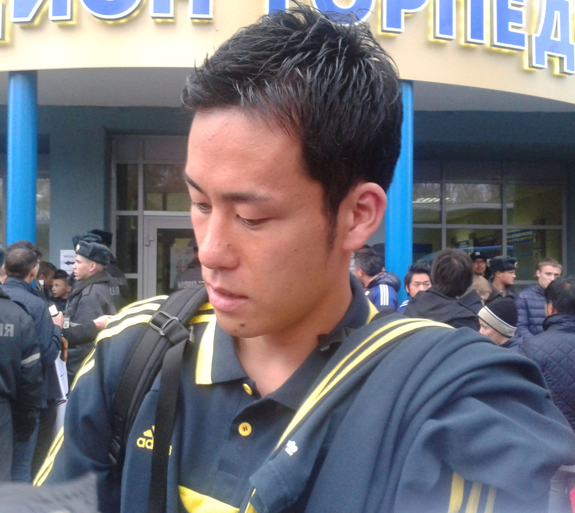 Maya Yoshida